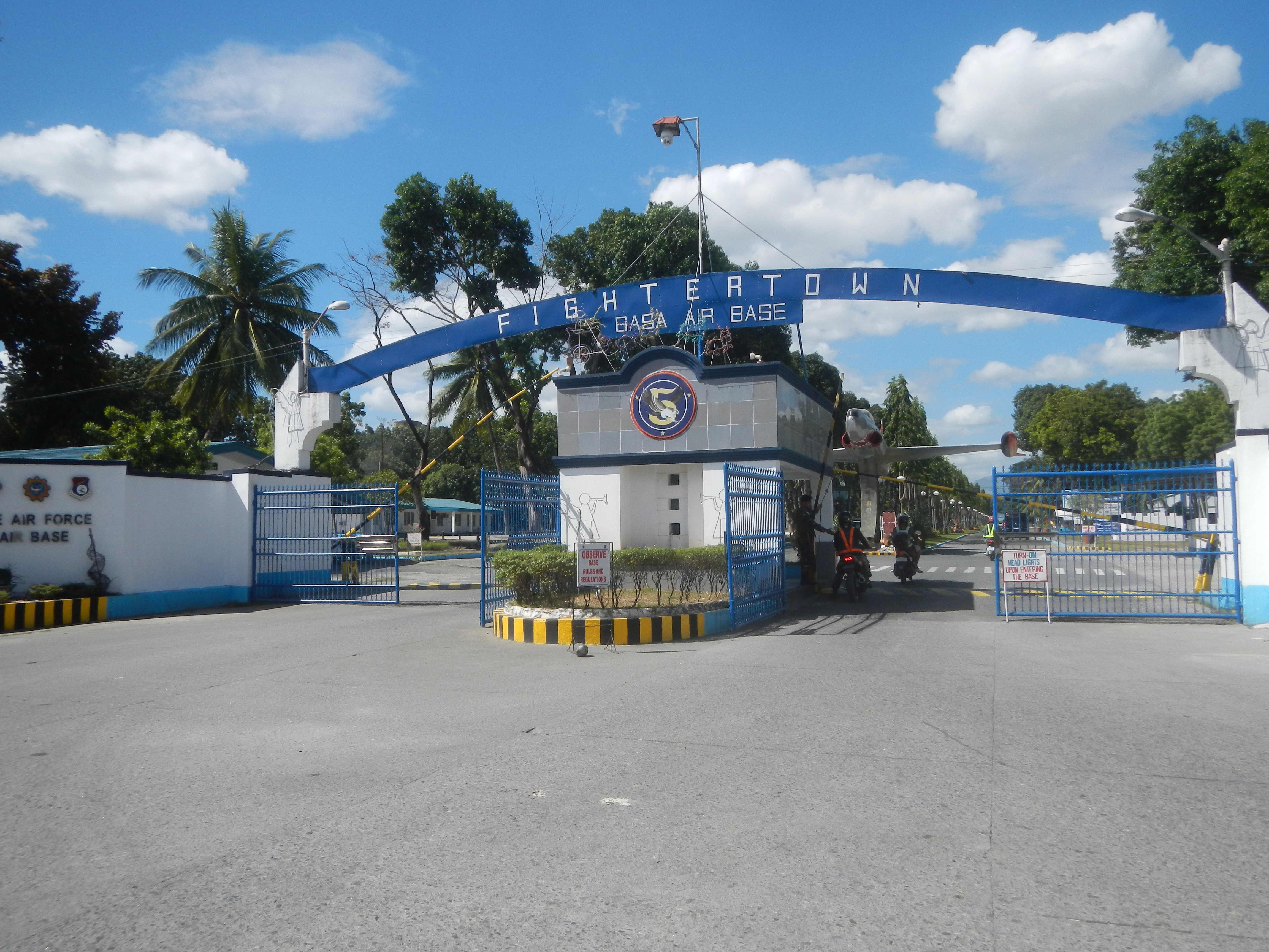 Basa Air Base Poblacion, Maligaya, Fortuna, San Jose, San Nicolas, Consuelo, Apalit and Palmayo Road, Floridablanca, Pampanga Barangay Poblacion 14°58'46"N 120°31'46"E Maligaya 14°58'34"N 120°31'28"E Fortuna 14°59'5"N 120°31'29"E San Jose 15°0'8"N 120°31'1"E San Nicolas 14°58'46"N 120°31'4"E Consuelo 14°57'41"N 120°29'30"E Apalit 14°58'35"N 120°28'46"E Palmayo 14°59'3"N 120°28'59"E Floridablanca, Pampanga (Note: Judge Florentino Floro, the owner, to repeat, Donor Florentino Floro of all these photos Judge Floro hereby donate gratuitously, freely and unconditionally Judge Floro all these photos to and for Wikimedia Commons, exclusively, for public use of the public domain, and again without any condition whatsoever).